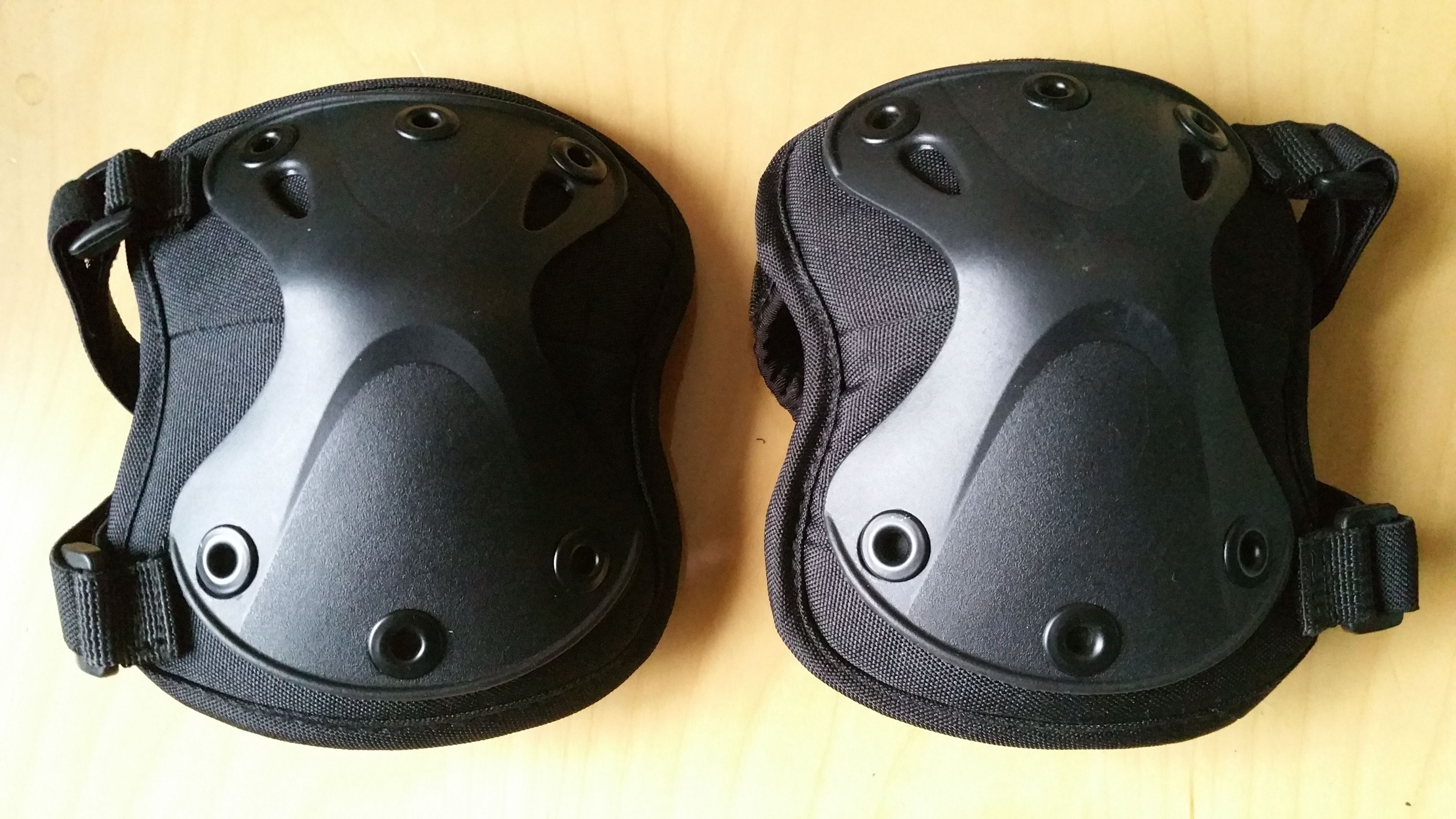 Splav tactical elbow pads